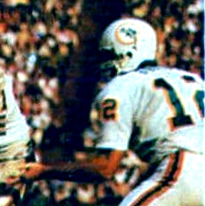 Miami Dolphins quarterback Bob Griese pictured handing the ball to teammate Jim Kiick off for a running play against the Washington Redskins during Super Bowl VII.